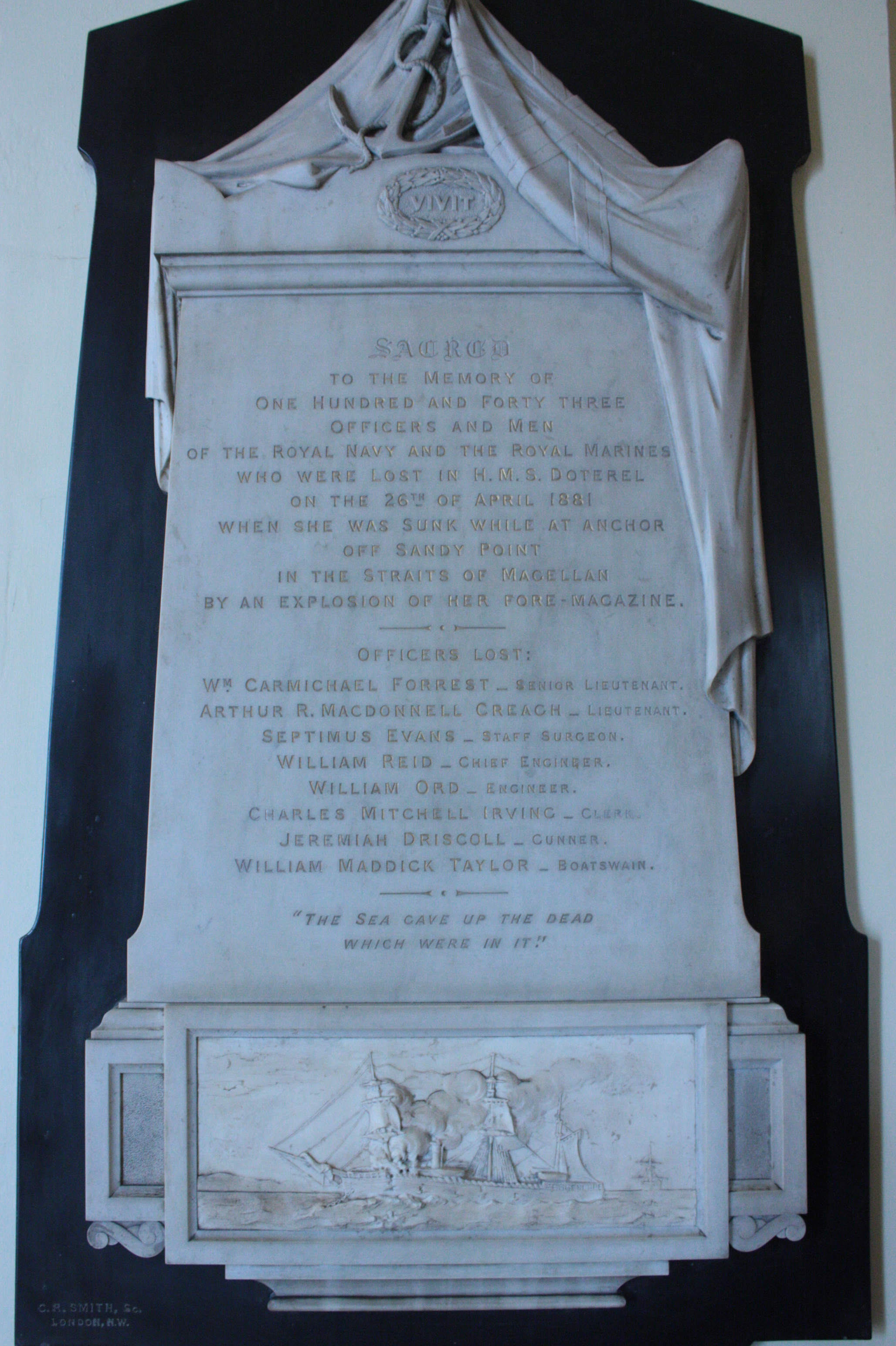 Memorial to the loss of HMS Doterel, Chapel, Greenwich Naval College